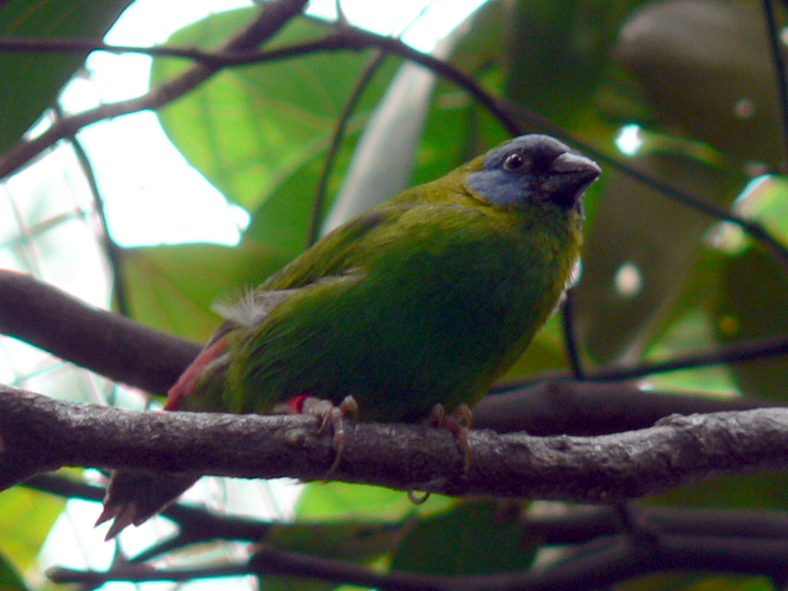 Blue-faced Parrot-finch (Erythrura trichroa) At Taronga Zoo, Sydney, Australia.